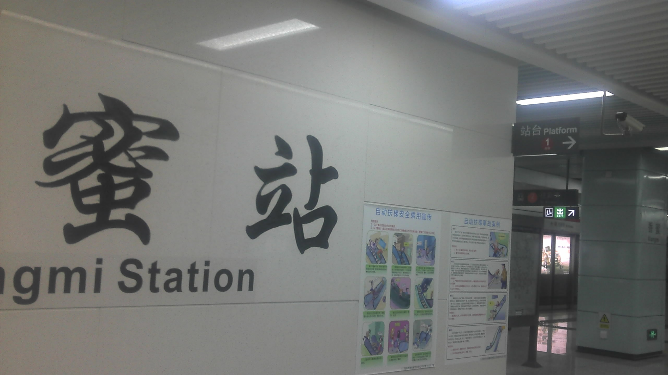 This photo was taken as Oct 16, 2011.